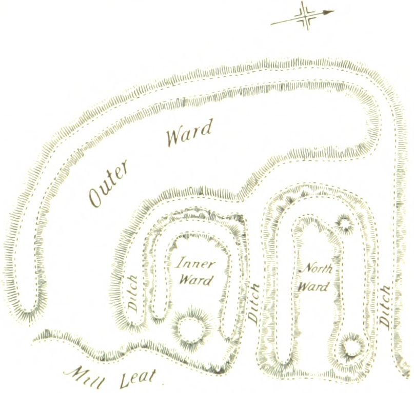 Image taken from: Title: "The Castles of England: their story and structure ... With ... illustrations and ... plans" Author: MACKENZIE, James Dixon - Sir, Bart Contributor: MACNAIRN, J. Shelfmark: "British Library HMNTS 10369.v.7." Volume: 01 Page: 187 Place of Publishing: London Date of Publishing: 1897 Publisher: W. Heinemann Issuance: monographic Identifier: 002322661 Note: The colours, contrast and appearance of these illustrations are unlikely to be true to life. They are derived from scanned images that have been enhanced for machine interpretation and have been altered from their originals. If you wish to purchase a high quality copy of the page that this image is drawn from, please order it here. Please note that you will need to enter details from the above list - such as the shelfmark, the page, the book's volume and so on - when filling out your order. Explore: Find this item in the British Library catalogue, 'Explore'. Open the page in the British Library's itemViewer (page: 187) Download the PDF for this book Click here to see all the illustrations in this book and click here to browse other illustrations published in books in the same year. Please click on the tags shown on the right-hand side for other ways to browse the illustrations.